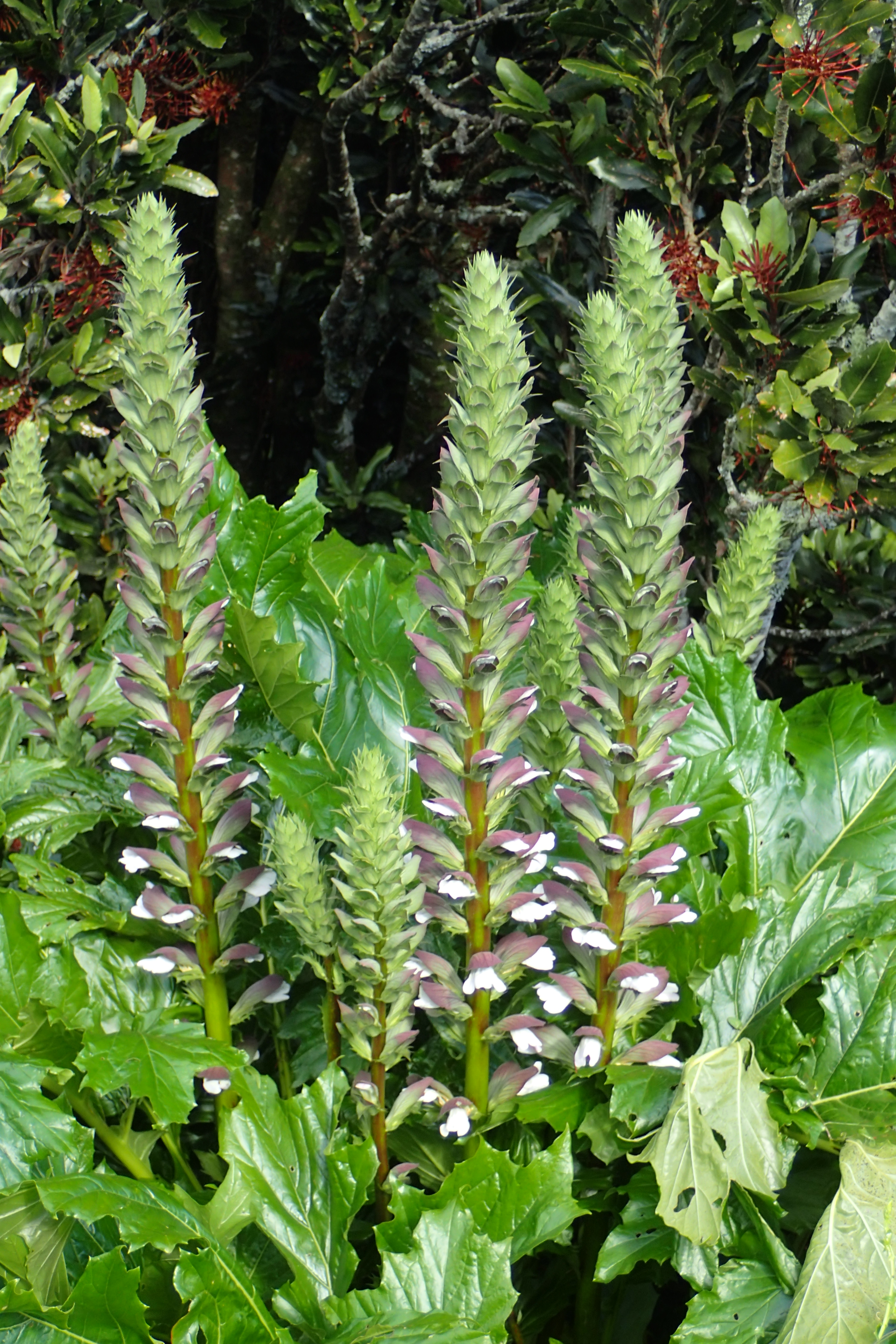 Acanthus mollis in Whiritoa (Waikato, New Zealand)